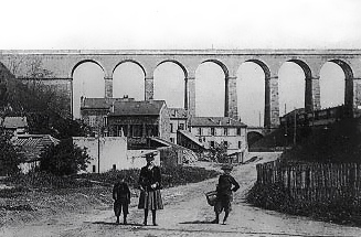 Scan of a picture of the Viaduc of Meudon (Fin XIXe ou début du XX e siècle)